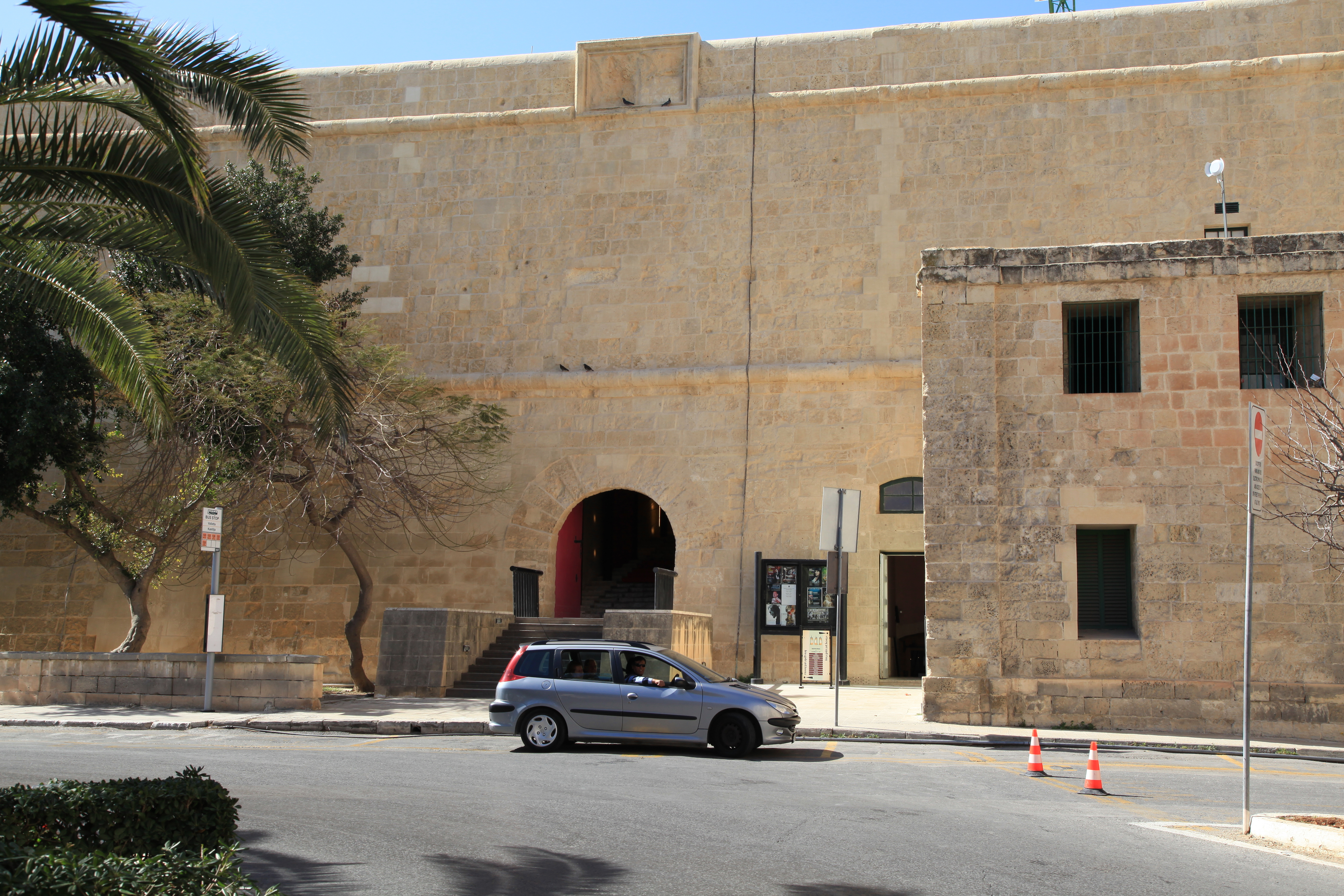 St. James Cavalier at Pjazza Kastilja in Valletta, Malta